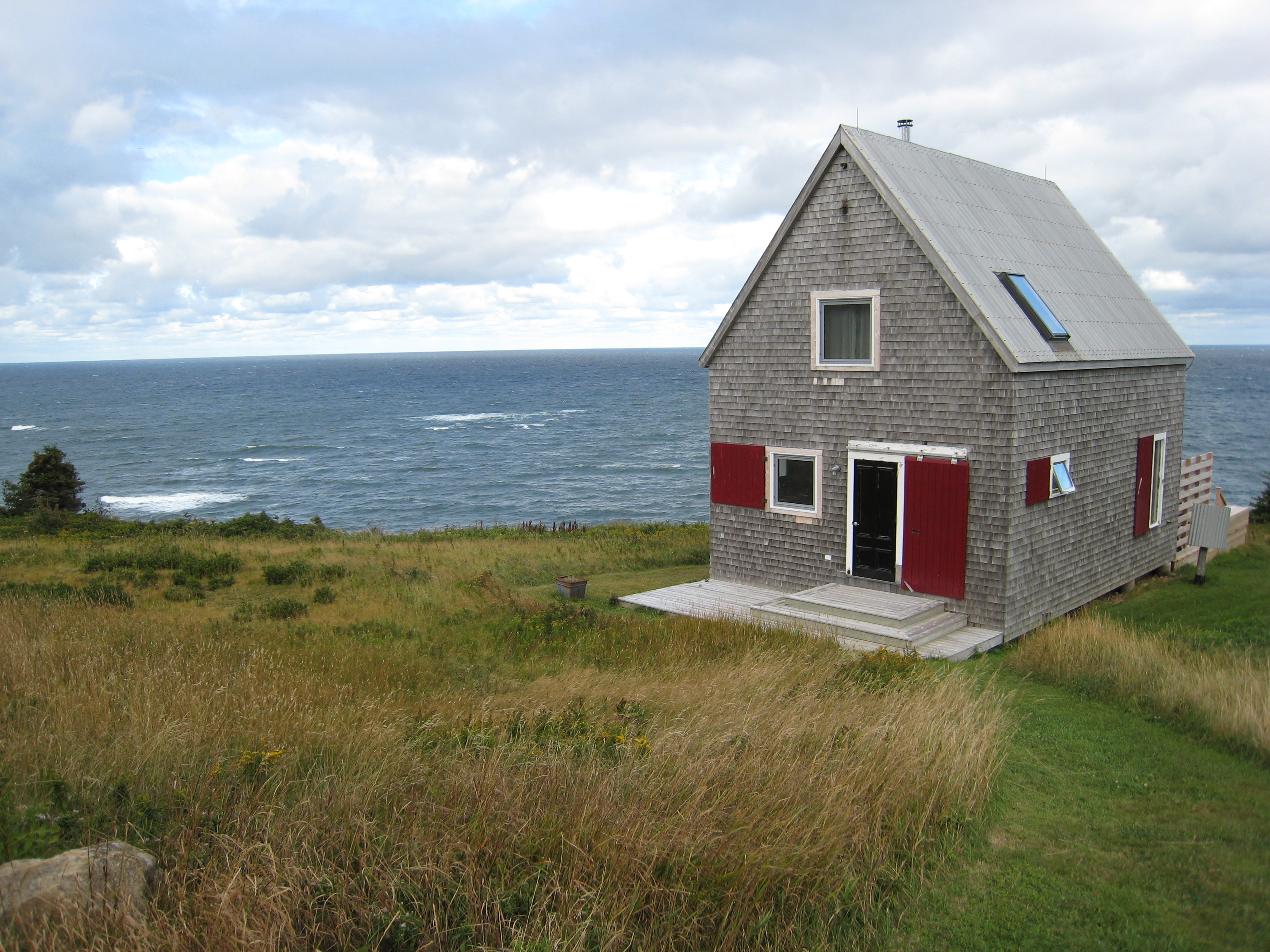 Rental cottage south of Margaree Harbour